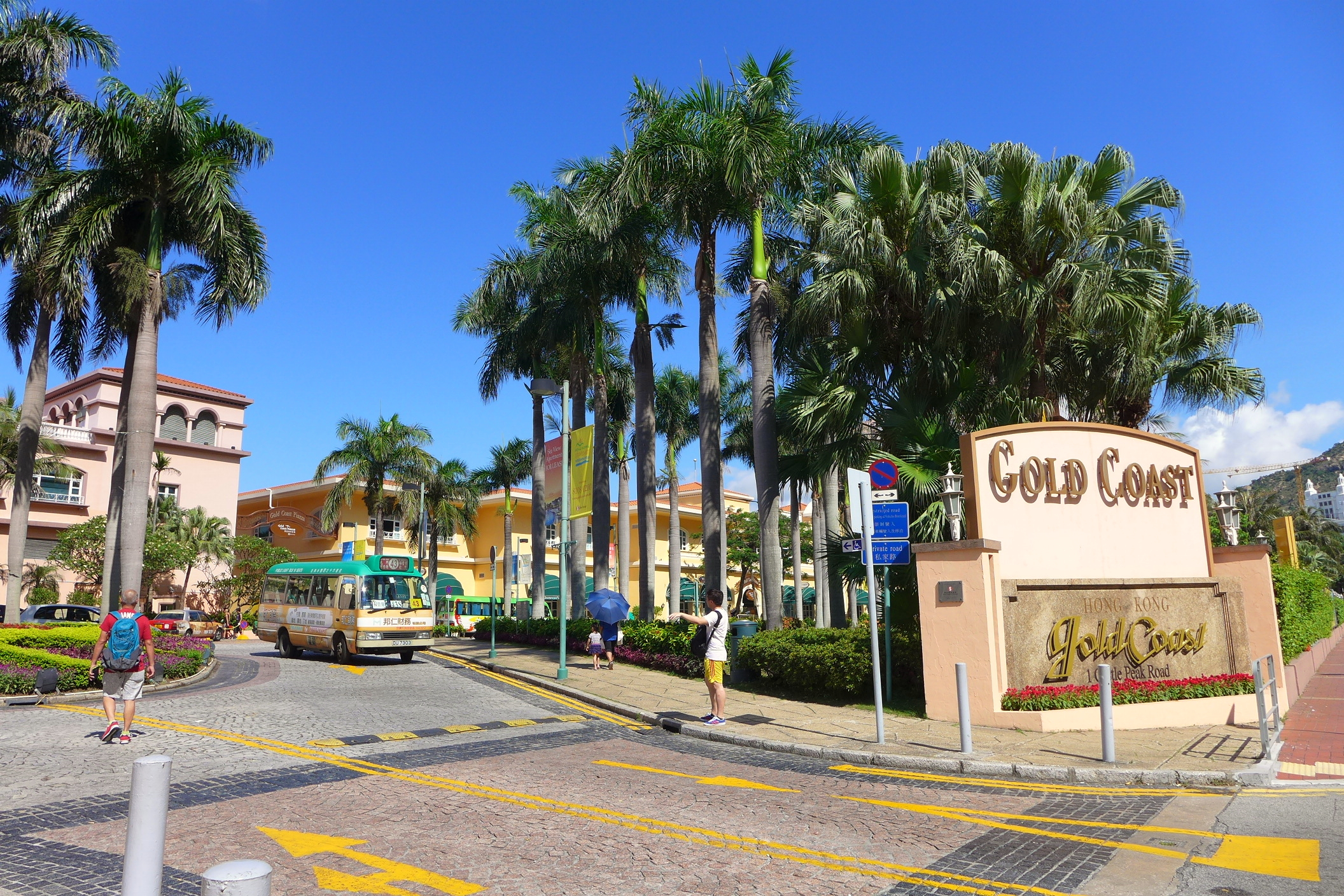 HK GoldCoast